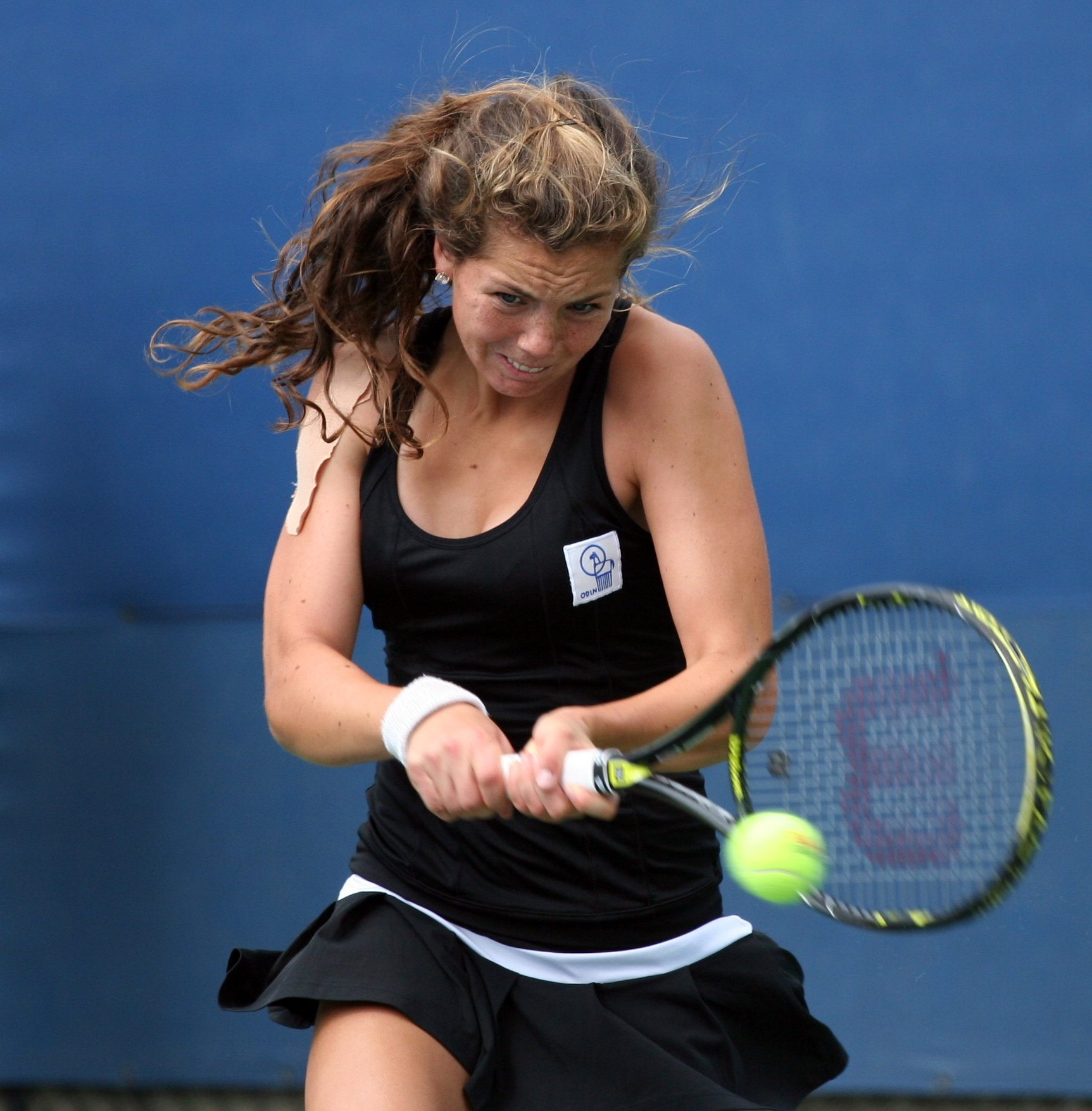 Ulrikke Eikeri at the 2009 US Open